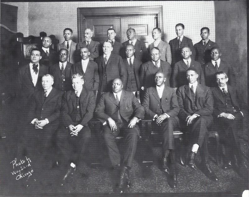 The Negro National League annual meeting held in Chicago on January 28, 1922. Back row, far left: Ira Lewis, a Pittsburgh Courier editor and secretary of the Pittsburgh Keystones. Back row, sixth from left: Alexander Williams, Mr. Williams’s grandfather, builder of Central Park and founder and president of the Pittsburgh Keystones. Middle row, far left: Joe Green, owner/manager of the Chicago Giants. Front row, far left: J. L. Wilkinson, owner of the Kansas City Monarchs. Front row, third and fourth from left: Rube Foster and C. I. Taylor.